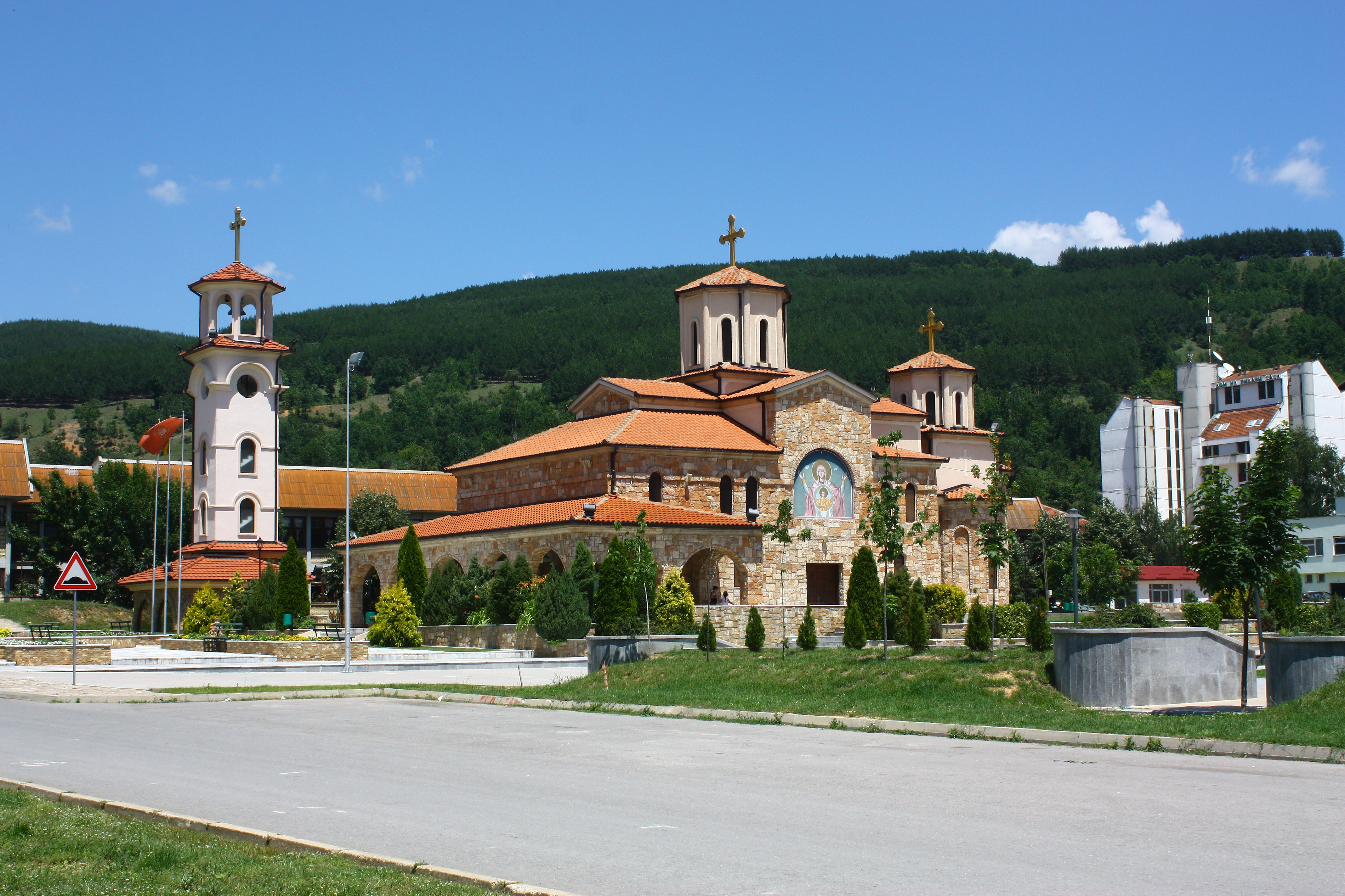 Dormition of the Theotokos Church in Makedonska Kamenica, Macedonia